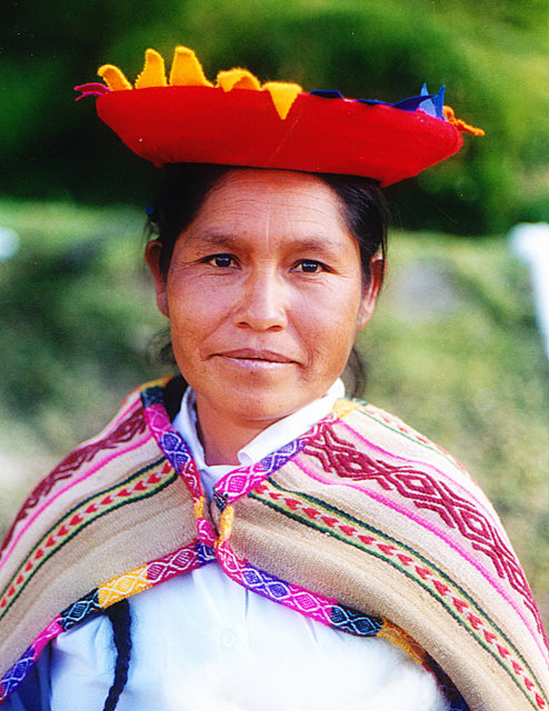 Indian female from Peru a Quechua